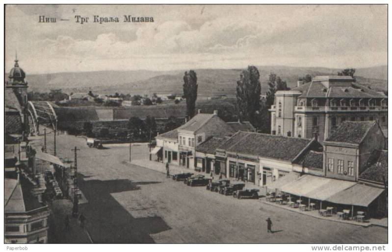 Ниш трг Краља Милана